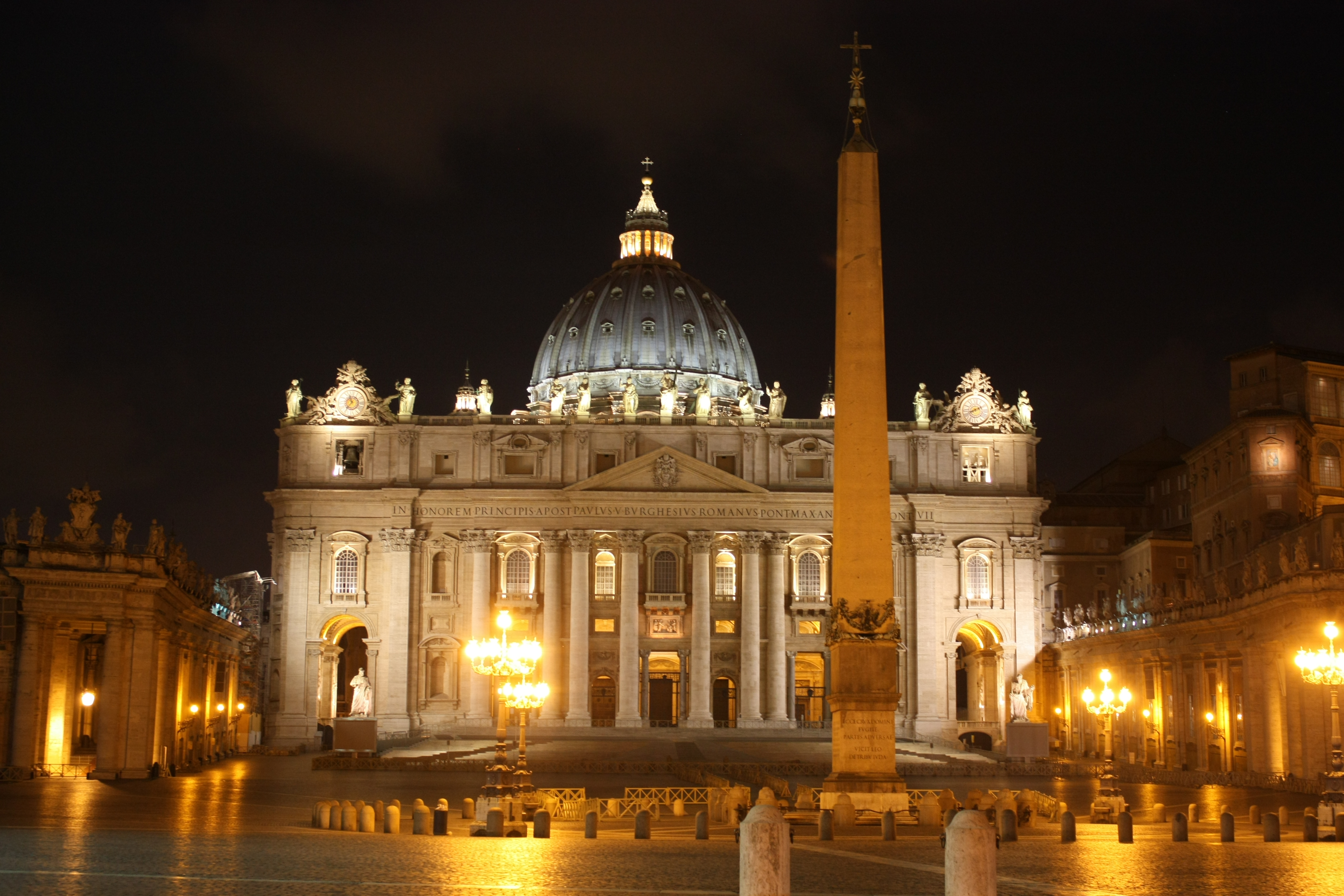 St. Peter's Basilica at night (Vatican, Rome)